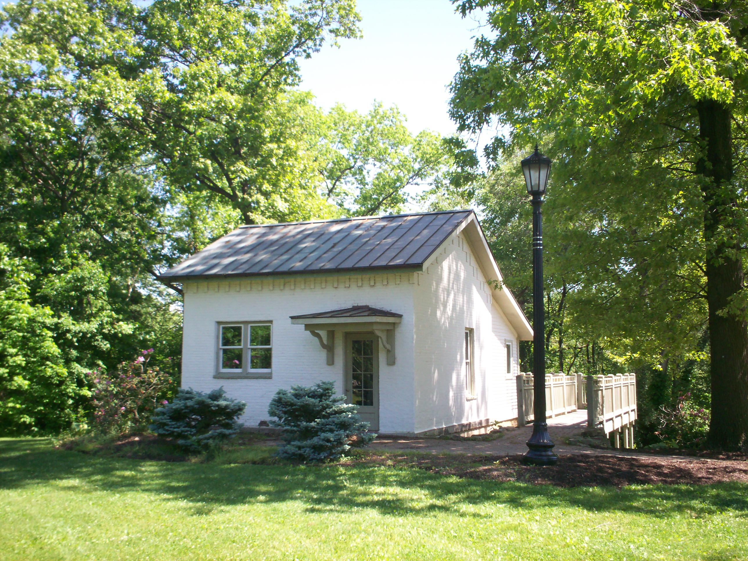 Photo of the Kent Jail in Kent, Ohio near the intersection of Middlebury Road and Haymaker Parkway, listed on the National Register of Historic Places.